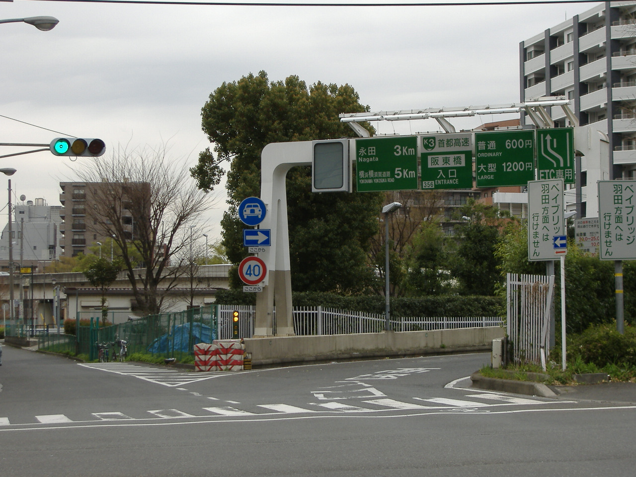 Metropolitan Expressway, Bandobashi Entrance(Yokohama,Japan)